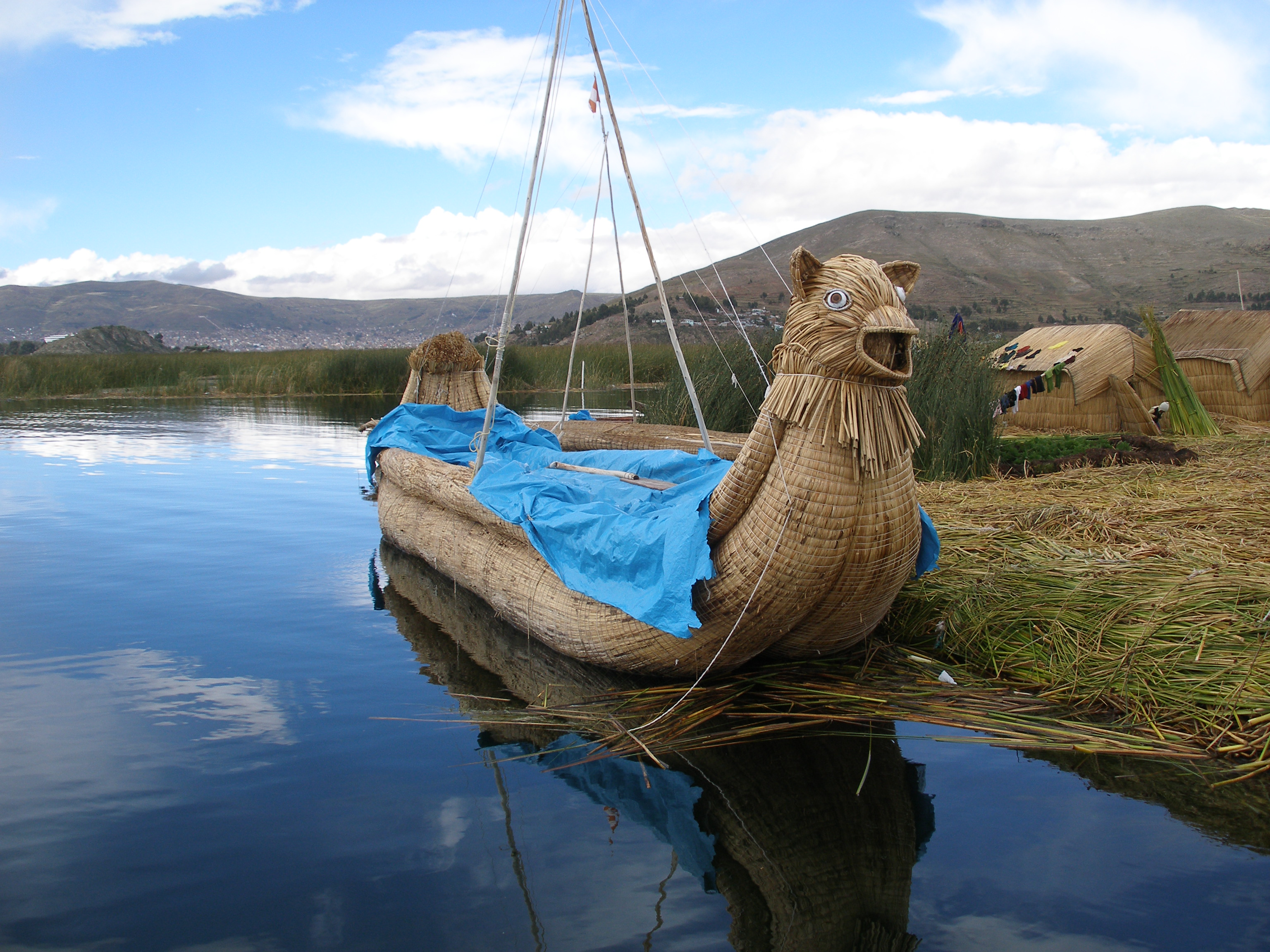 This amazingly sturdy boat held more than 20 of us as we visited a few of the Uros Islands. The construction of these boats is remarkably similar to reed boats once used on the Nile river in Egypt. In the 1940's, Norwegian scientist Thor Heyerdahl developed a theory that there was some sort of cultural exchange between Africa and South America, and he build a series of boats to test his theory. In 1970, Thor and his crew sailed a reed boat from Morocco to Central America, carrying no supplies, but living off the sea as they went, proving that the journey was possible at least. See for more information.